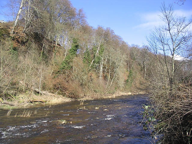 The Jed Water Looking downstream at Prior's Haugh.